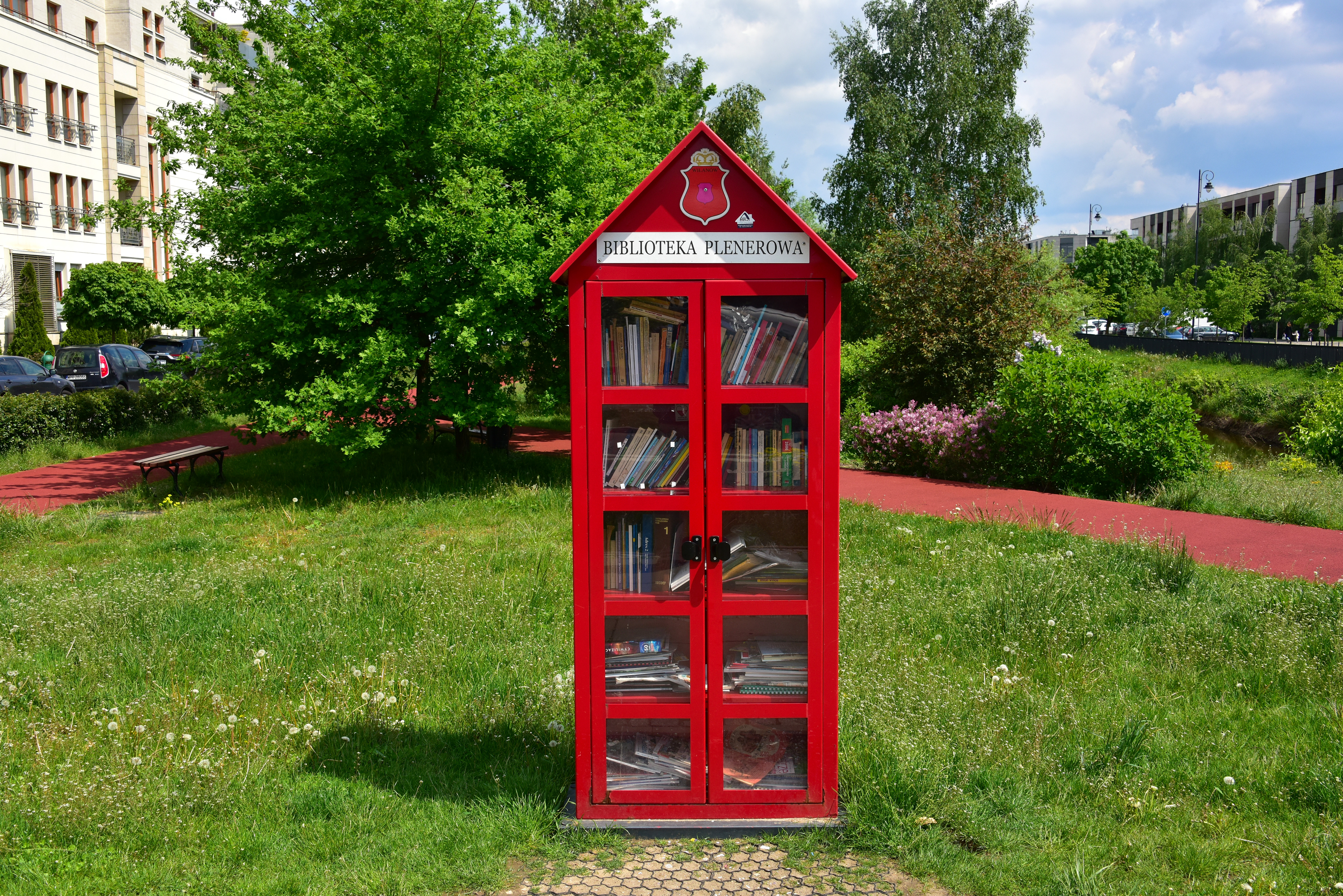 Street library (bookcrossing) in Klimczaka Street in Warsaw